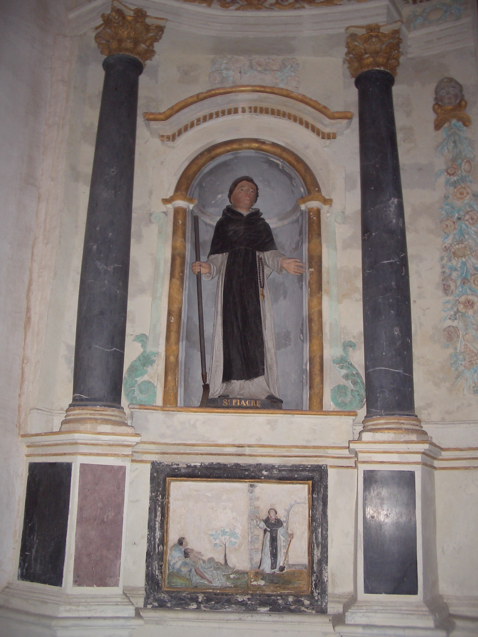 One of the altars in the Chapelle St Fiacre in Radenac. Depiction of St Fiacre